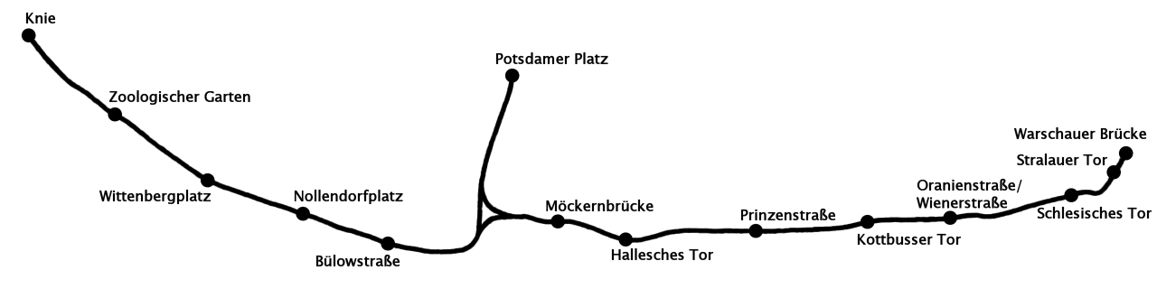 The original route of the Stammstrecke in Berlin, 1902.